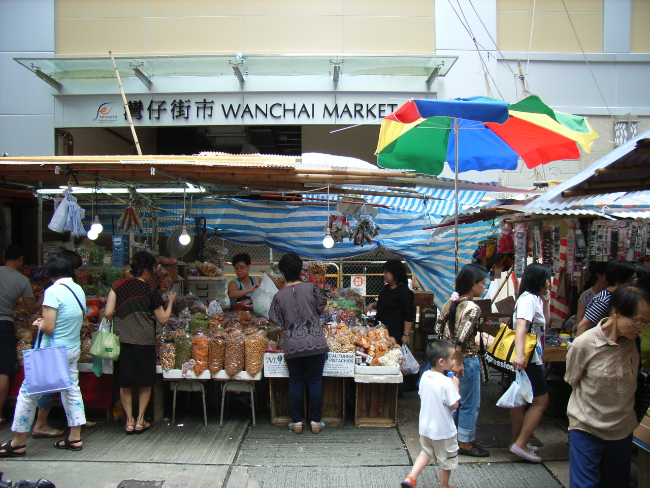 New Wanchai Market, Stone Nullah Lane, Wanchai, Hong Kong Created by Jam Mei SUM